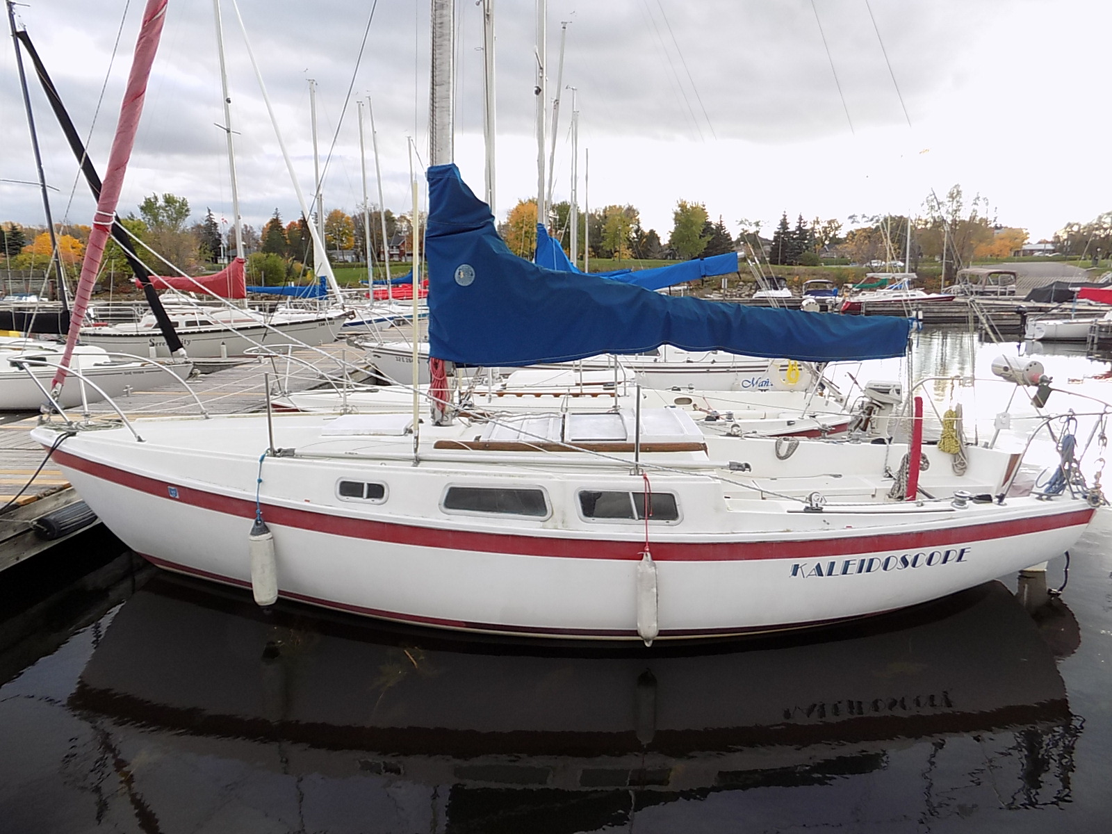 A Cal 25 sailboat named Kaliedoscope.